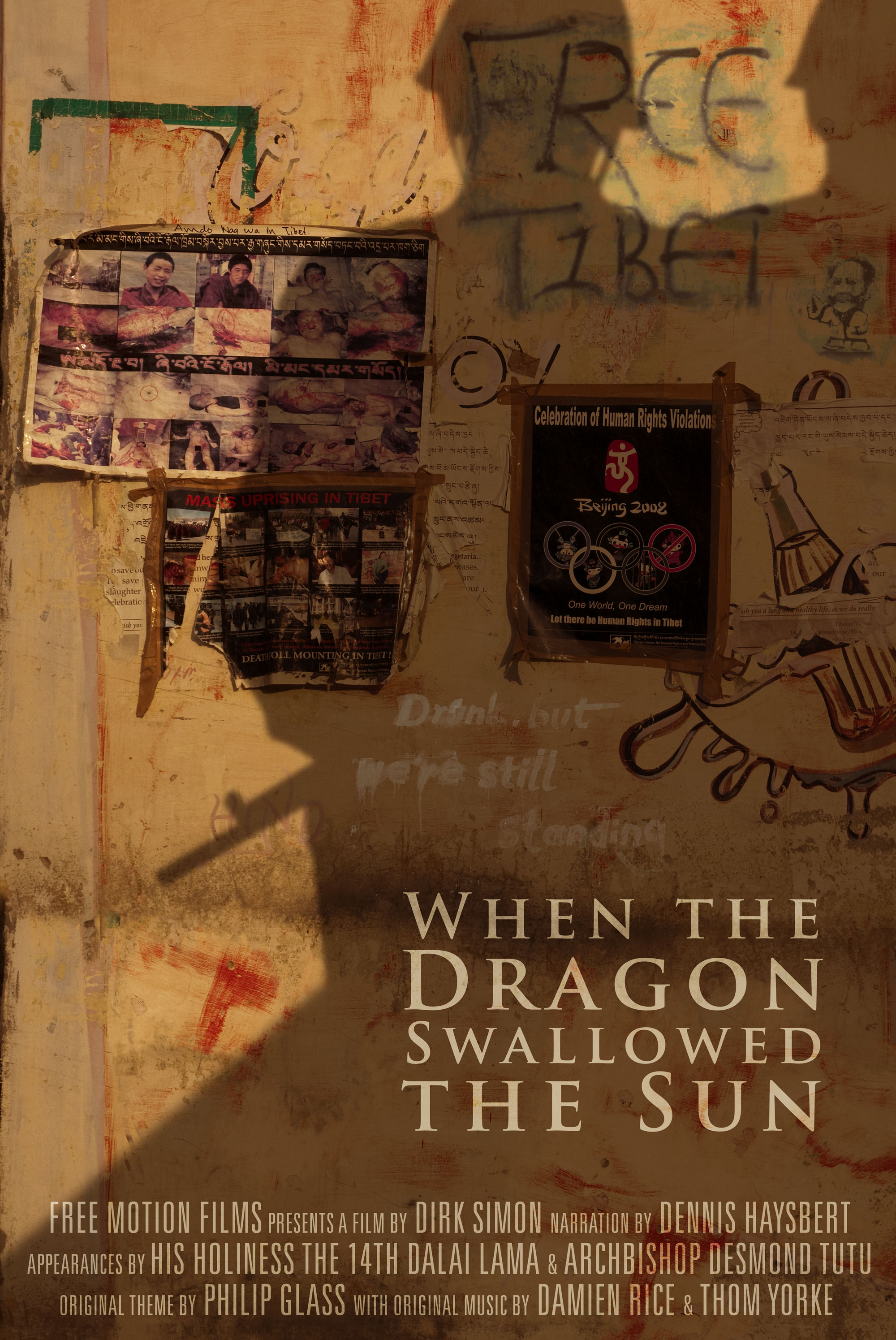 Film poster of the documentary "When The Dragon Swallowed The Sun" by Dirk Simon